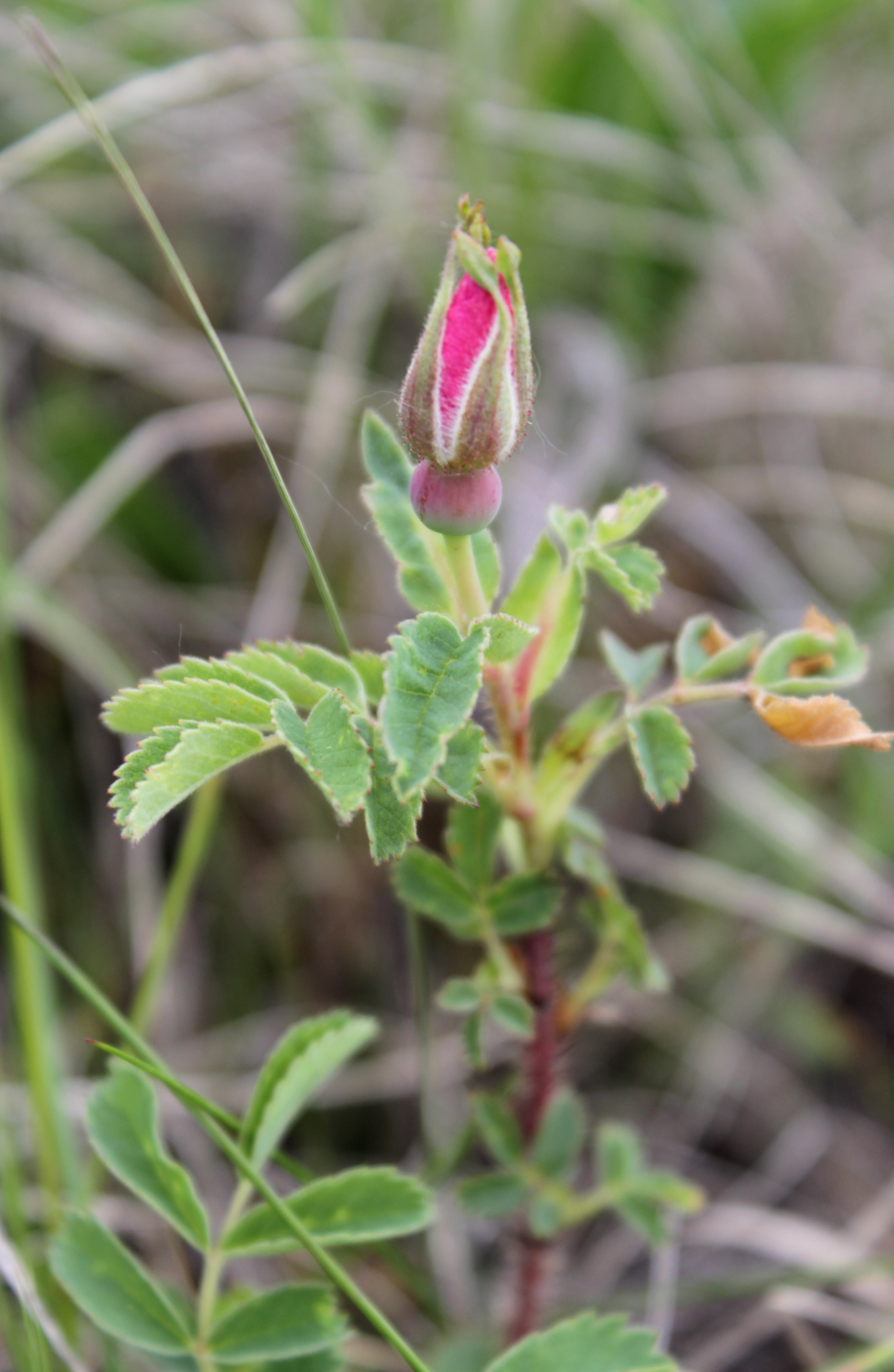 This wild prairie rose (Rosa arkansana) is just opening on the Cornell Waterfowl Production Area in the Kulm Wetland Management District, North Dakota. Photo Credit: Krista Lundgren/USFWS